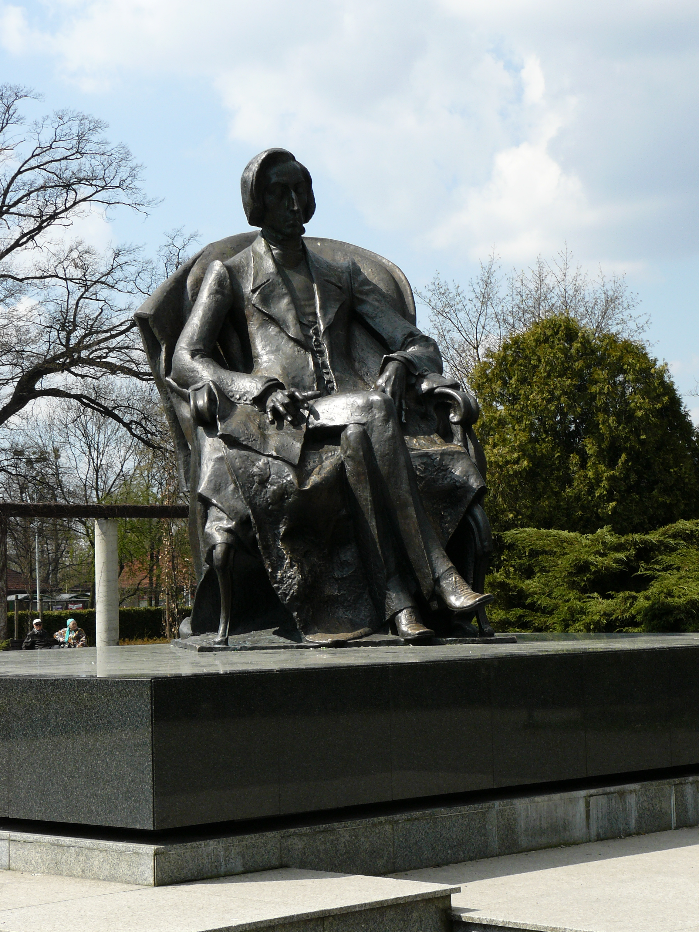 Park Południowy.